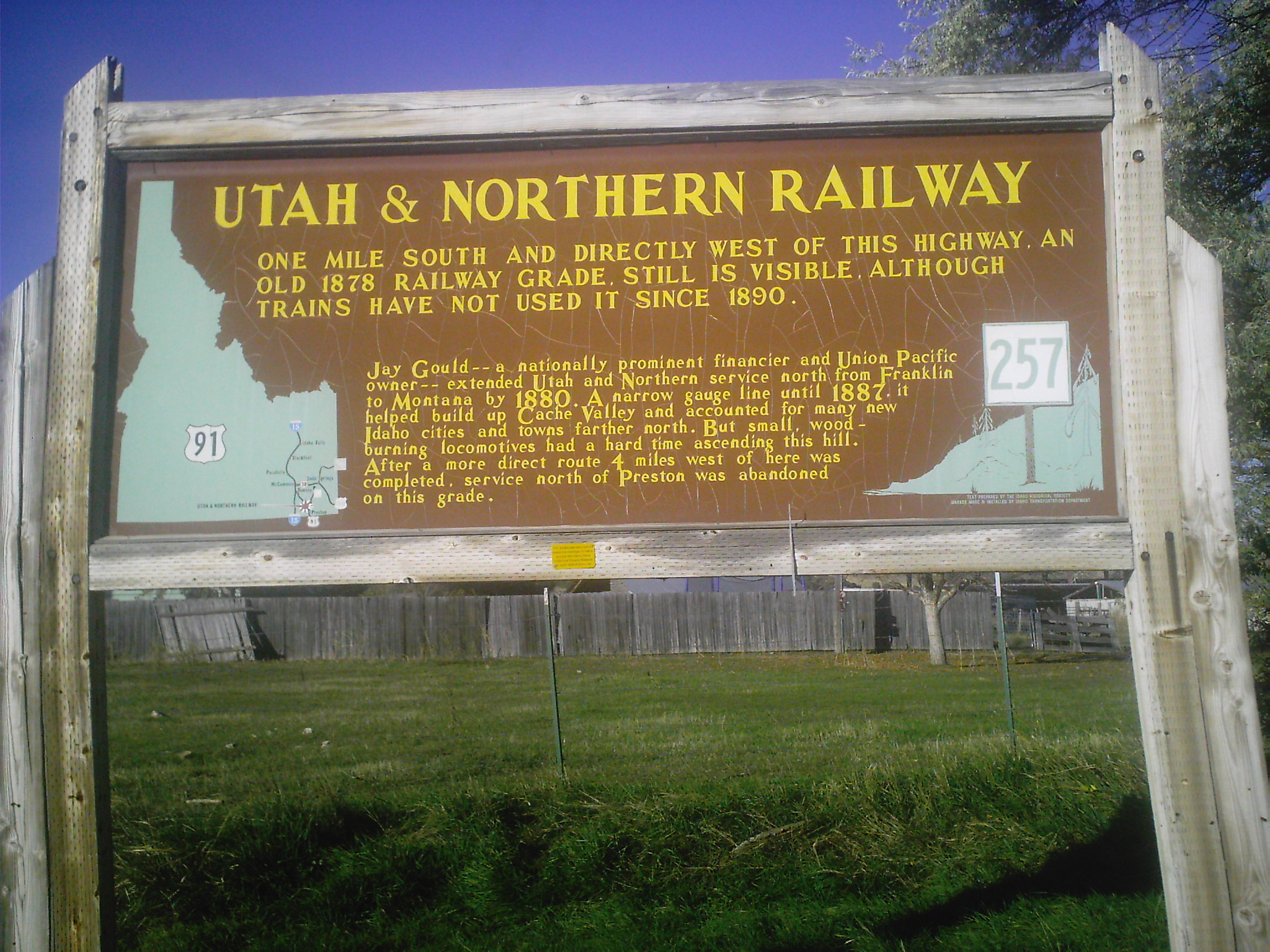 A roadside sign depicting the building of the Utah and Northern Railway through south-eastern Idaho. Located about 3 miles north of Preston, at the monument of the Bear River Massacre.